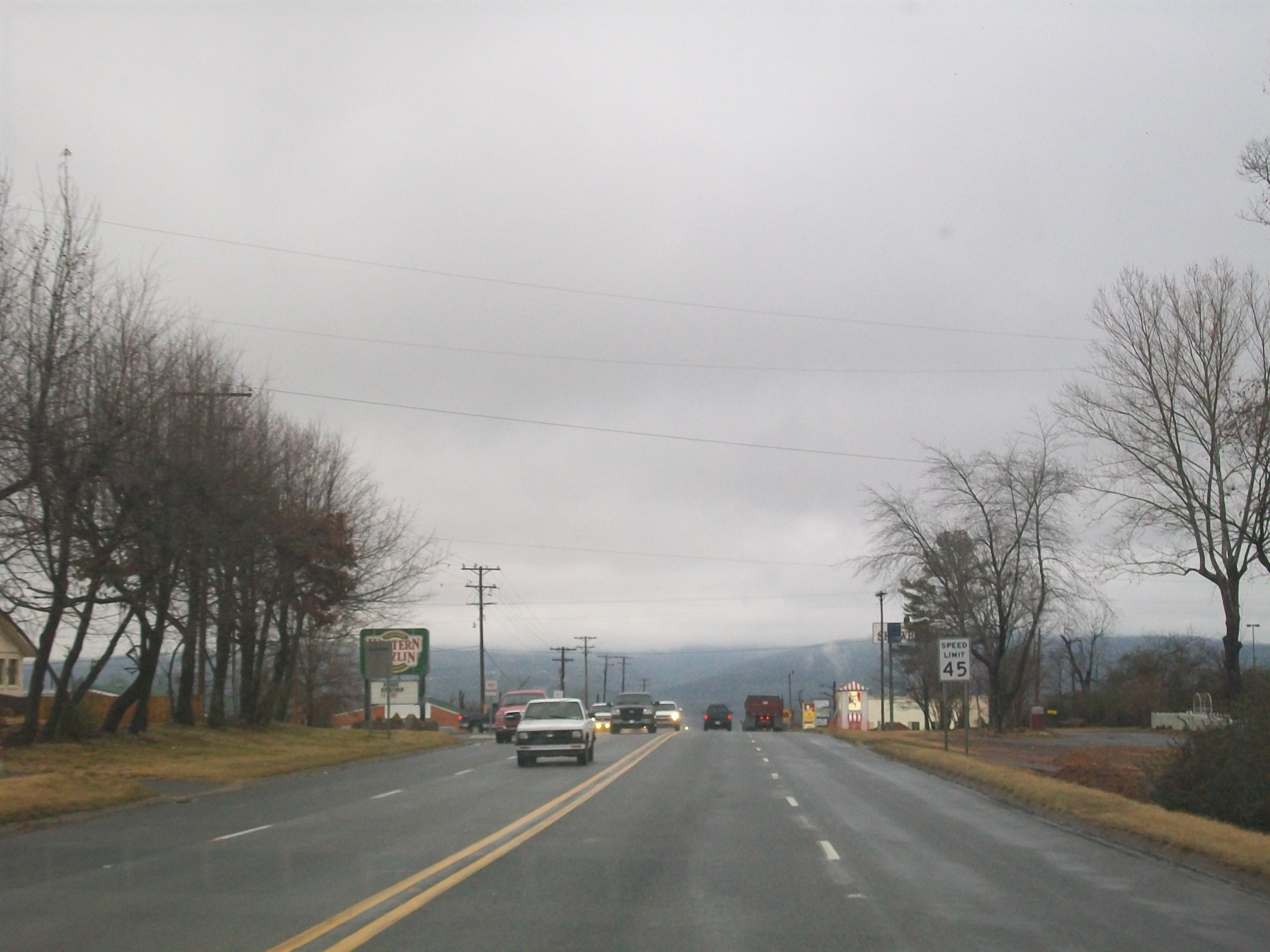 a picture I took while going through the city